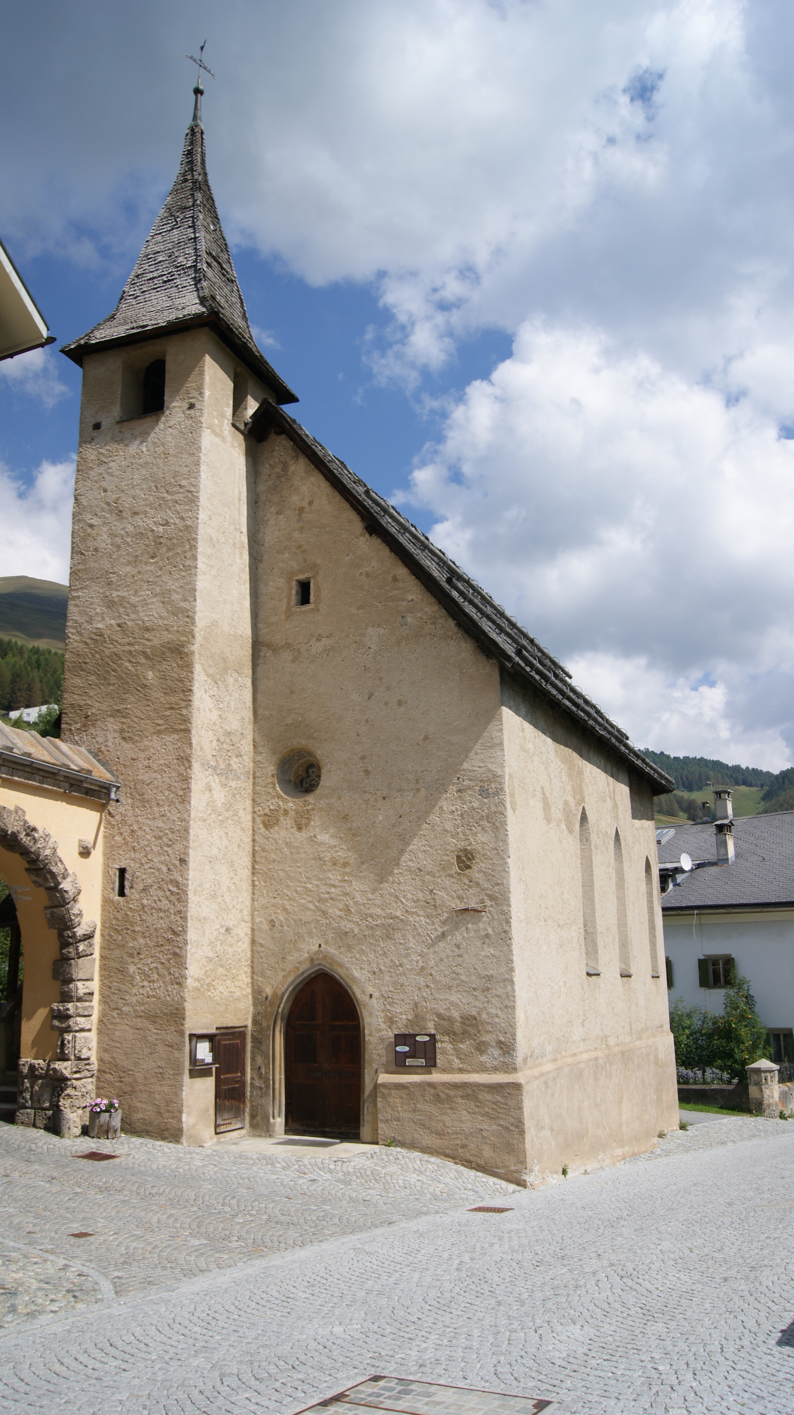 La baselgia Sta Chatrigna e Sta Barbara (Church of St. Catherine and St. Barabar) in Zuoz, Grisons, Switzerland. First mentioned in 1446, rebuilt in 1509/1510.